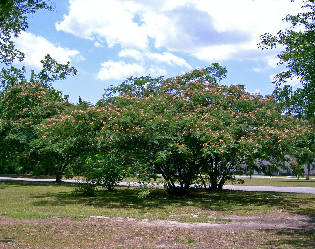 Silk Tree in the southeastern US, in bloom.